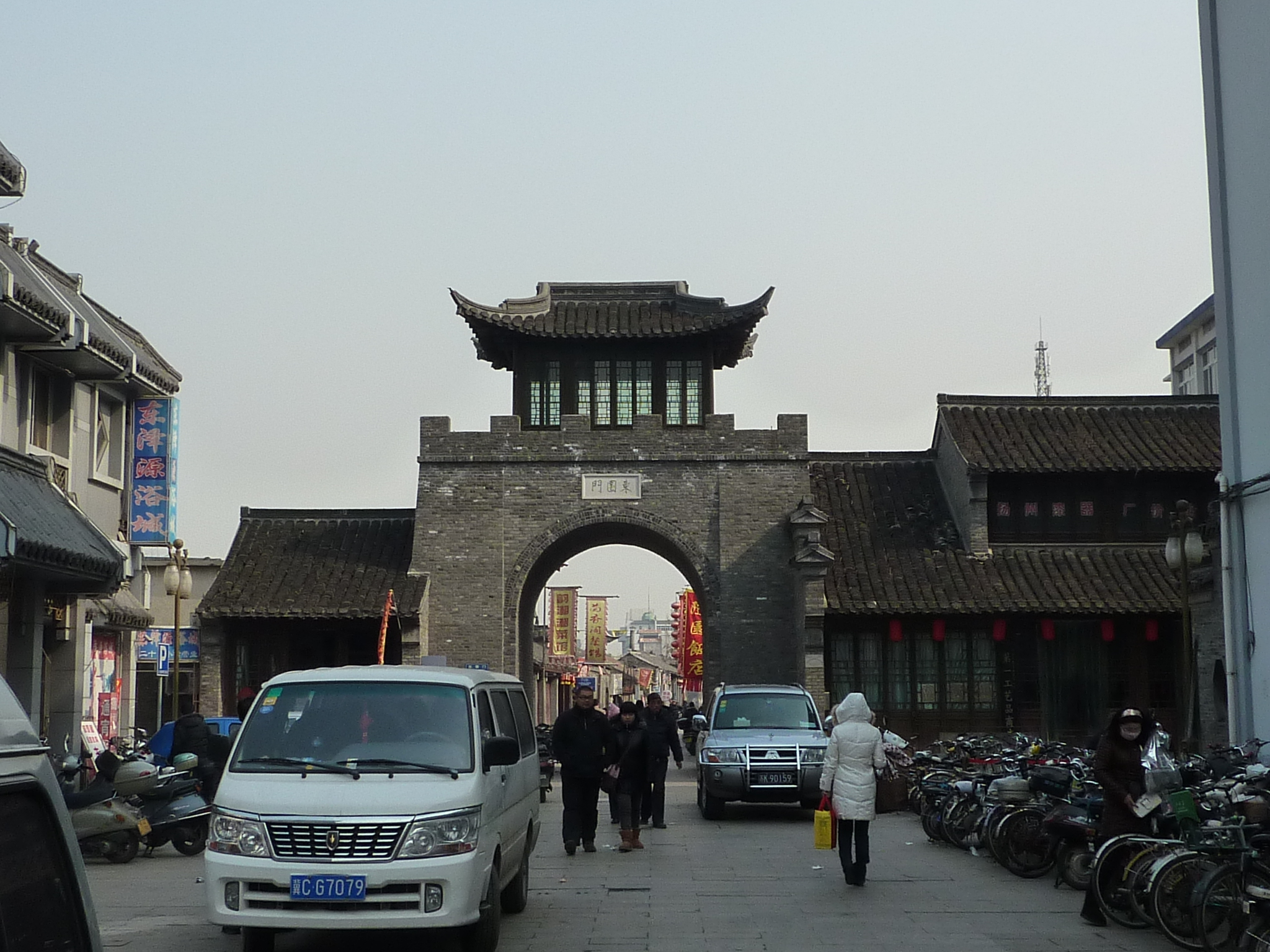 The Ming-era Dongquan Gate in Caiyi St, Guangling District, Yangzhou.